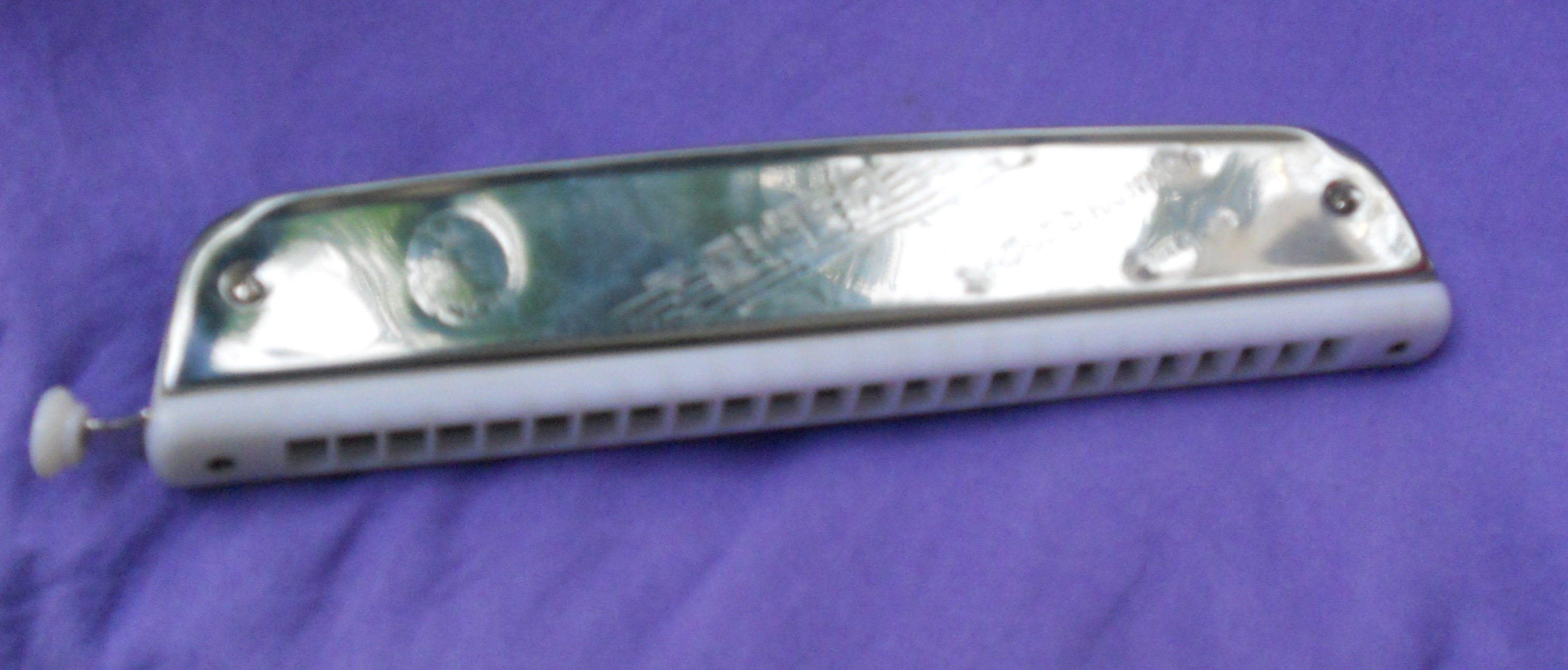 Mouthorgan(harmonica),a music instrument